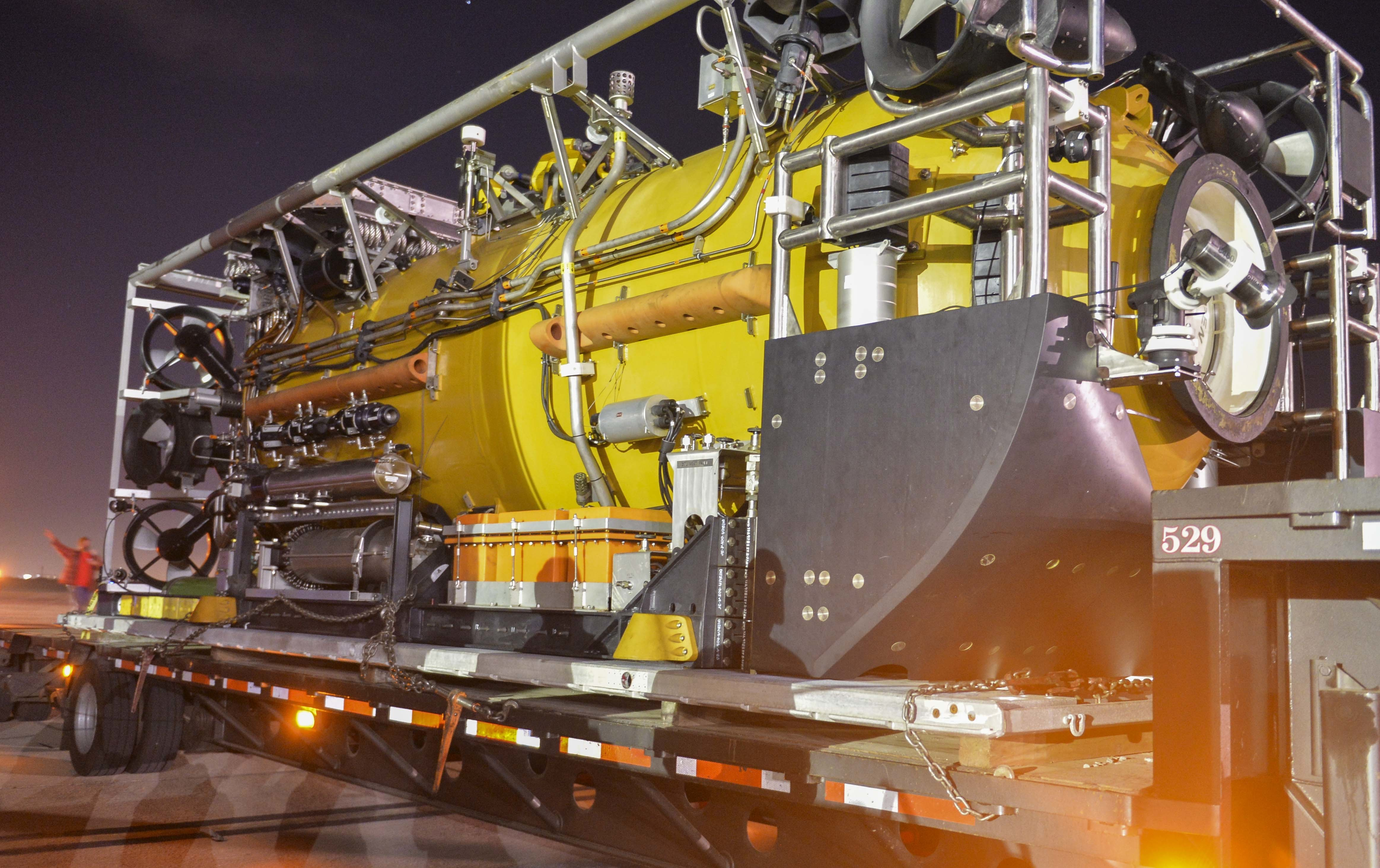 SAN DIEGO (Nov. 19, 2017) Undersea Rescue Command (URC), based in San Diego, Calif., mobilizes the Pressurized Rescue Module (PRM) to support the ongoing search for the Argentine navy submarine ARA San Juan (S-42) in the south Atlantic Ocean, Nov. 19, 2017. URC is deploying two rescue assets, the Submarine Rescue Chamber (SRC) and the PRM. The URC Sailors deploying with the rescue systems are highly trained and routinely exercise employing the advanced technology in submarine rescue scenarios. U.S. Air Force C-17 "Globemaster" IIIs and C-5 "Galaxies" from Travis Air Force Base, Calif. and Joint Base Elmendorf-Richardson, Alaska, are transporting the equipment from Marine Corps Air Station Miramar, Calif. to Comodoro Rivadavia, Argentina. (U.S. Navy photo by Mass Communication Specialist 1st Class Ronald Gutridge/Released)171118-N-UK333-168 Join the conversation: navylive.dodlive.mil